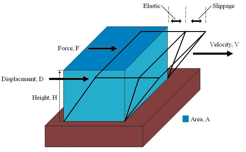 Simple cubic model showing elastic and viscous deformation components